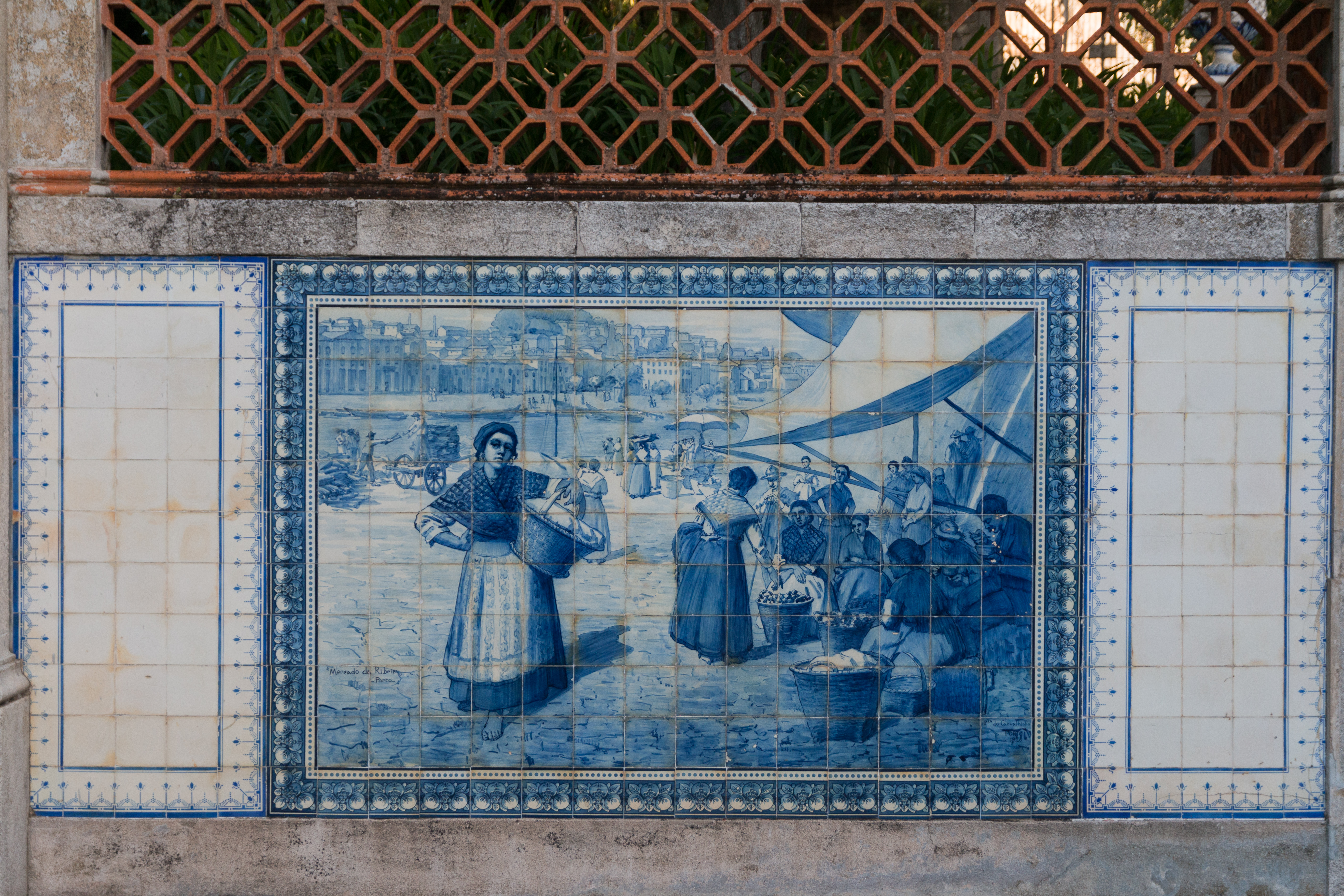 Wall of the fisherman, Ribeira Pier in Porto